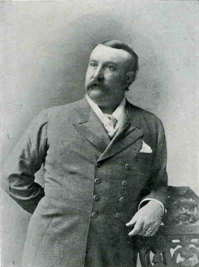 Photograph of Edward Lloyd (tenor)